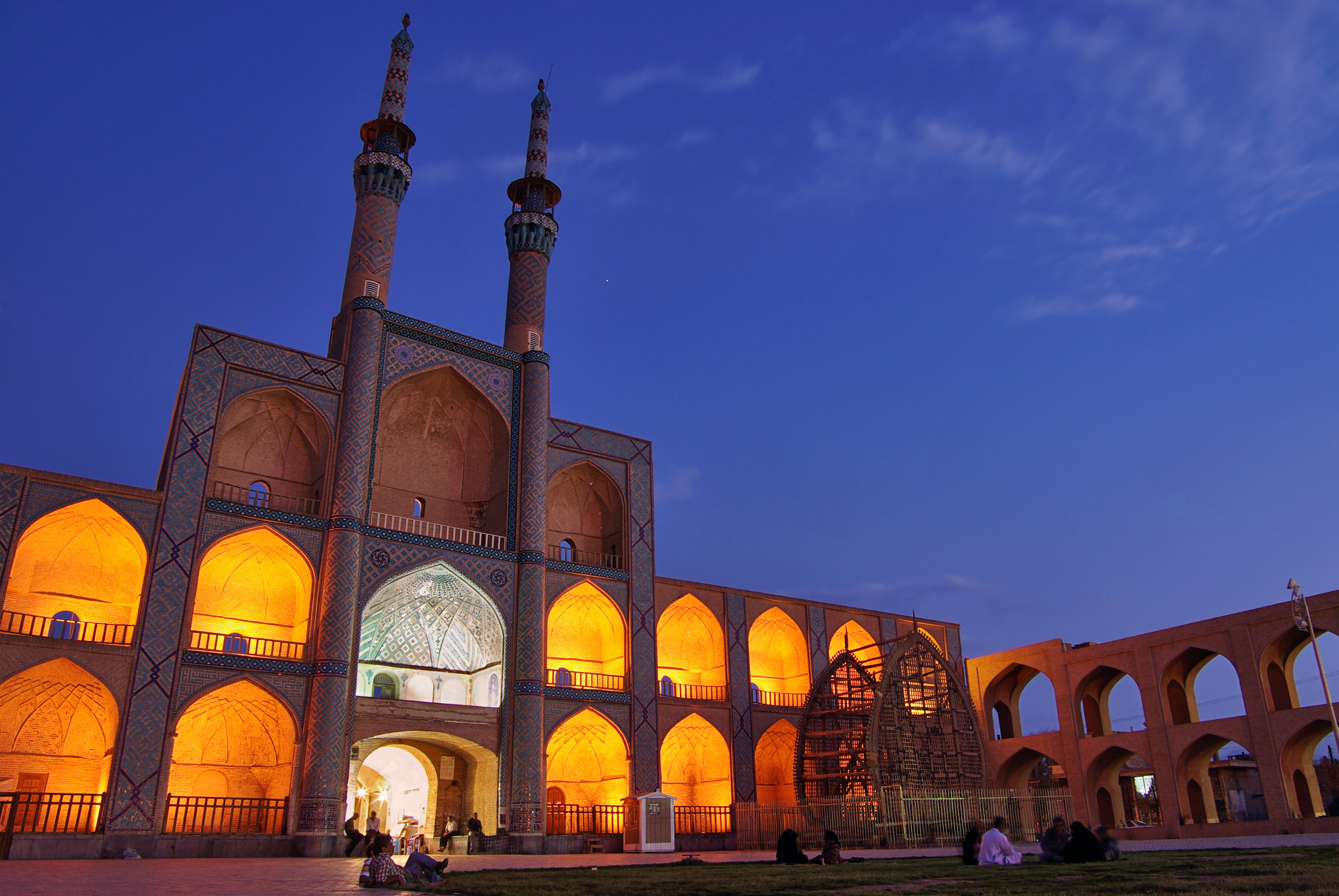 The Amir Chakmak Mosque in the Yazd, Iran.